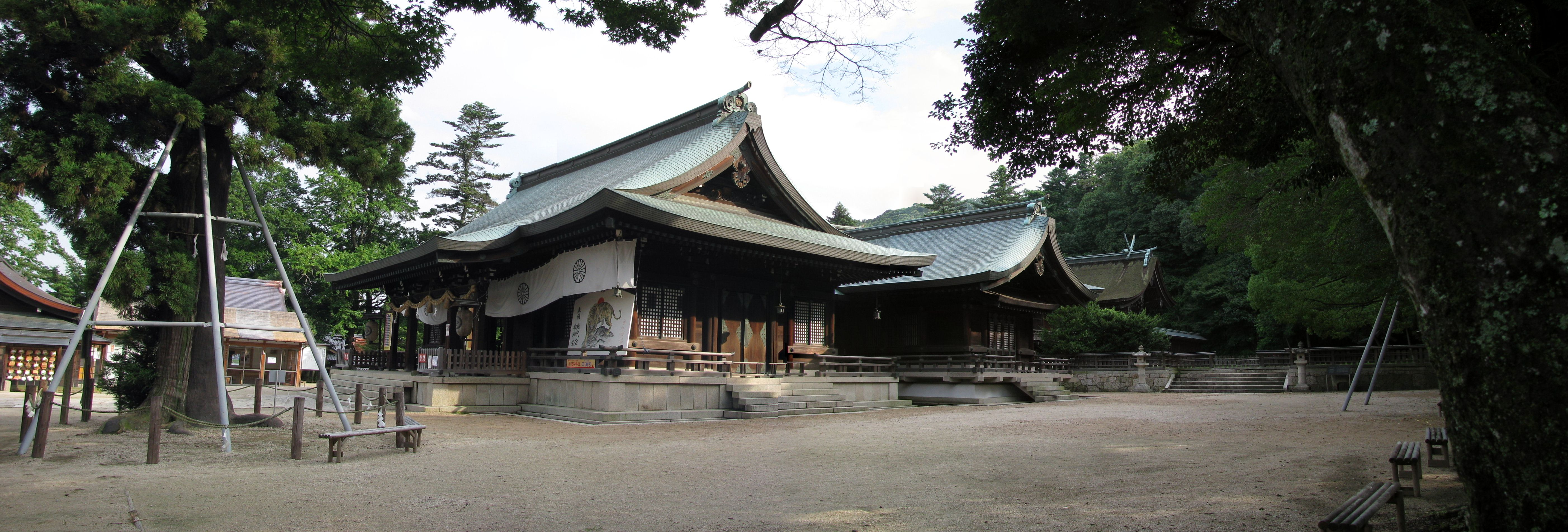 The Kibitsuhiko jinja is Shinto shrine in Kita-ku, Okayama, Okayama Prefecture, Japan.